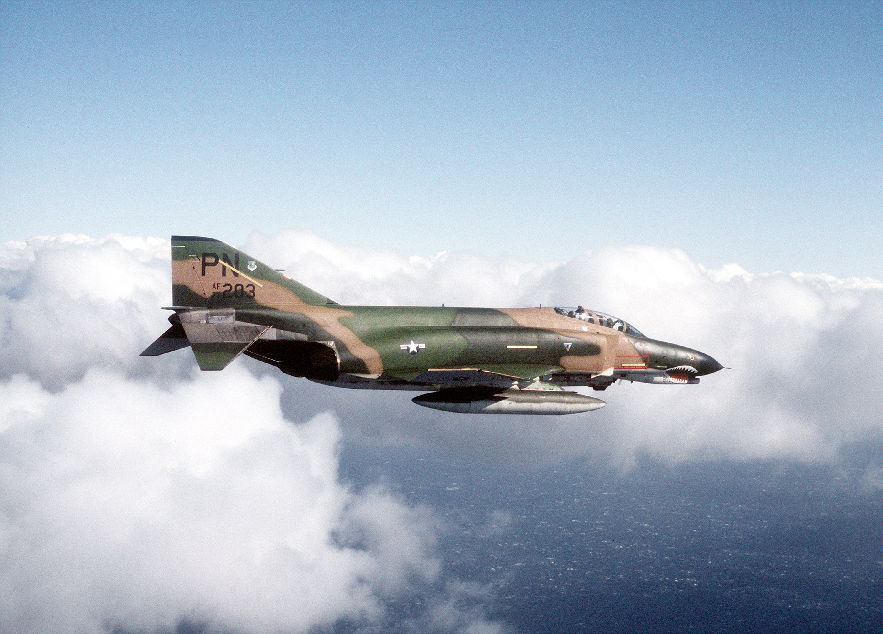 A U.S. Air Force McDonnell Douglas F-4E-59-MC Phantom II (s/n 73-1203) of the 3rd Tactical Fighter Wing from Clark Air Base, Philippines, flying out of Misawa Air Base, Japan, during exercise "Cope North 80" on 15 October 1980.